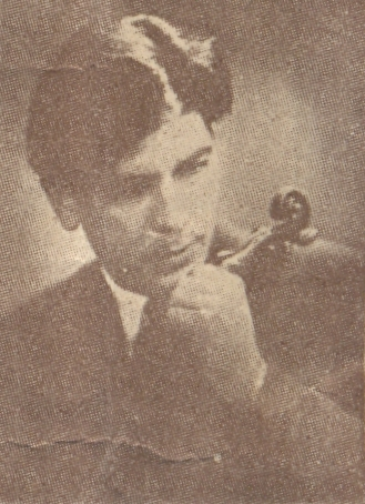 Portrait of the Bulgarian violinist Boyan Konstantinov (1904-1957) on a poster "Bulgarian scenic art 1900-1932"